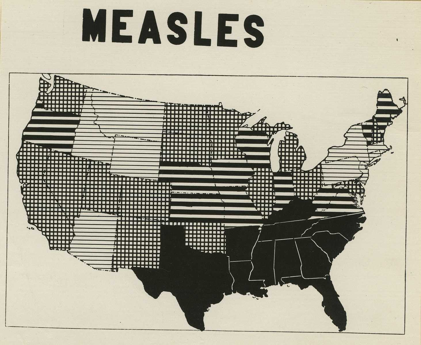 1)EPIDEMIOLOGY. "MEASLES." ; MAP OF U.S. SHOWING ADMISSION RATES PER 1000 PER ANNUM WHITE ENLISTED MEN IN U.S. FROM APRIL 1917 TO DECEMBER